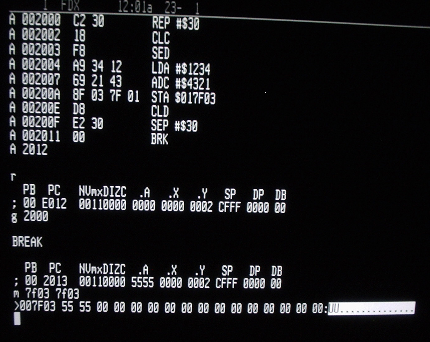 Screen shot of the output of the machine code monitor of a W65C816S single-board computer following execution of a short program (also illustrated).